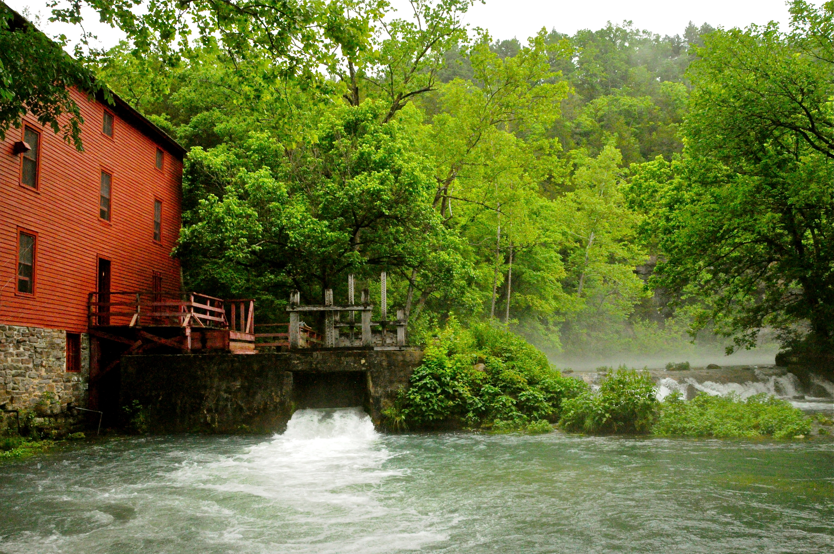 Alley Mill, powered by Alley Spring, in the Ozarks of Missouri, in the Ozark National Scenic Riverways